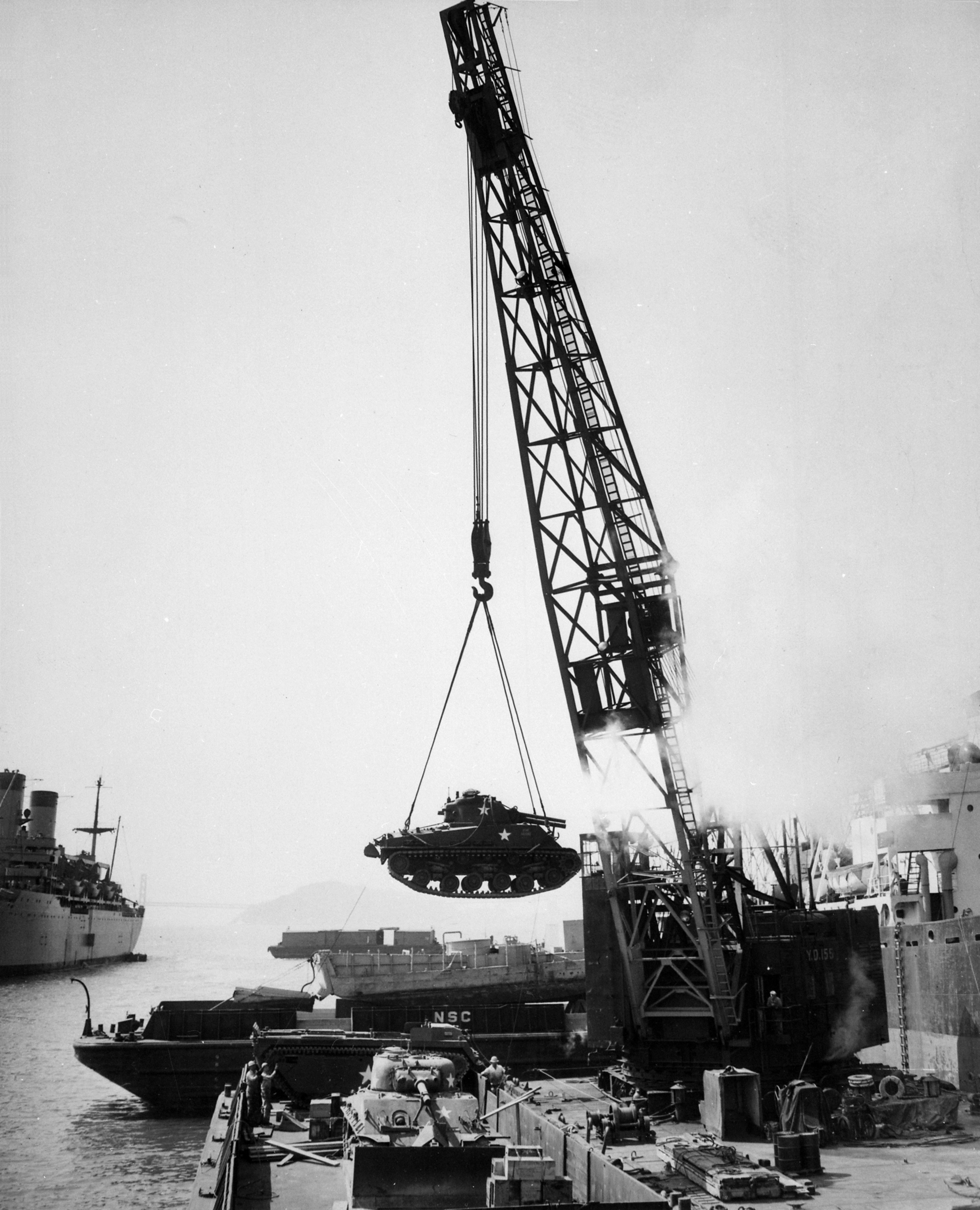 A U.S. Marine Corps M4 Sherman tank is swung aboard a barge at the Naval Supply Center at Oakland, California (USA) by crane, for transhipment to Korea, 1950. Another M4 and an LVT are visible on the barge.